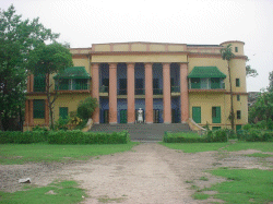 Uttarpara Joy Krishnalibrary